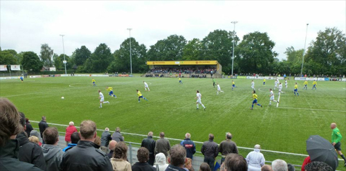 Football stand of Blauw Geel '38 at the Prins Willem Alexander Sports Ground in Veghel, Netherlands.